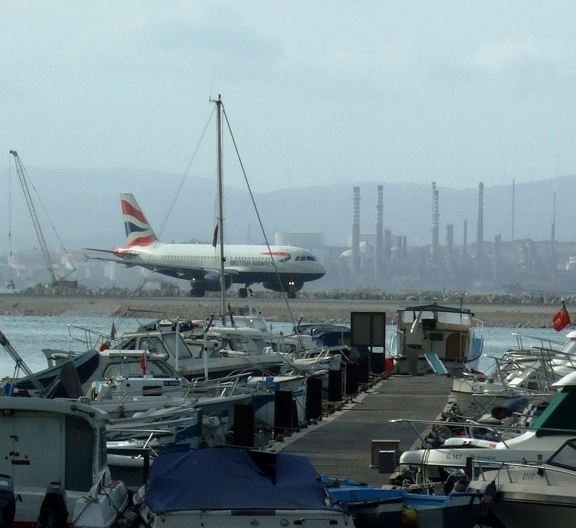 Boats, Ocean Village, Gibraltar